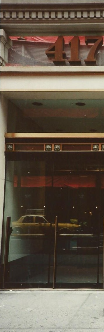 The entrance of 417 Fifth Avenue in Manhattan in New York City. The computer software company InterACT had its offices in this building from 1989 to 1991.